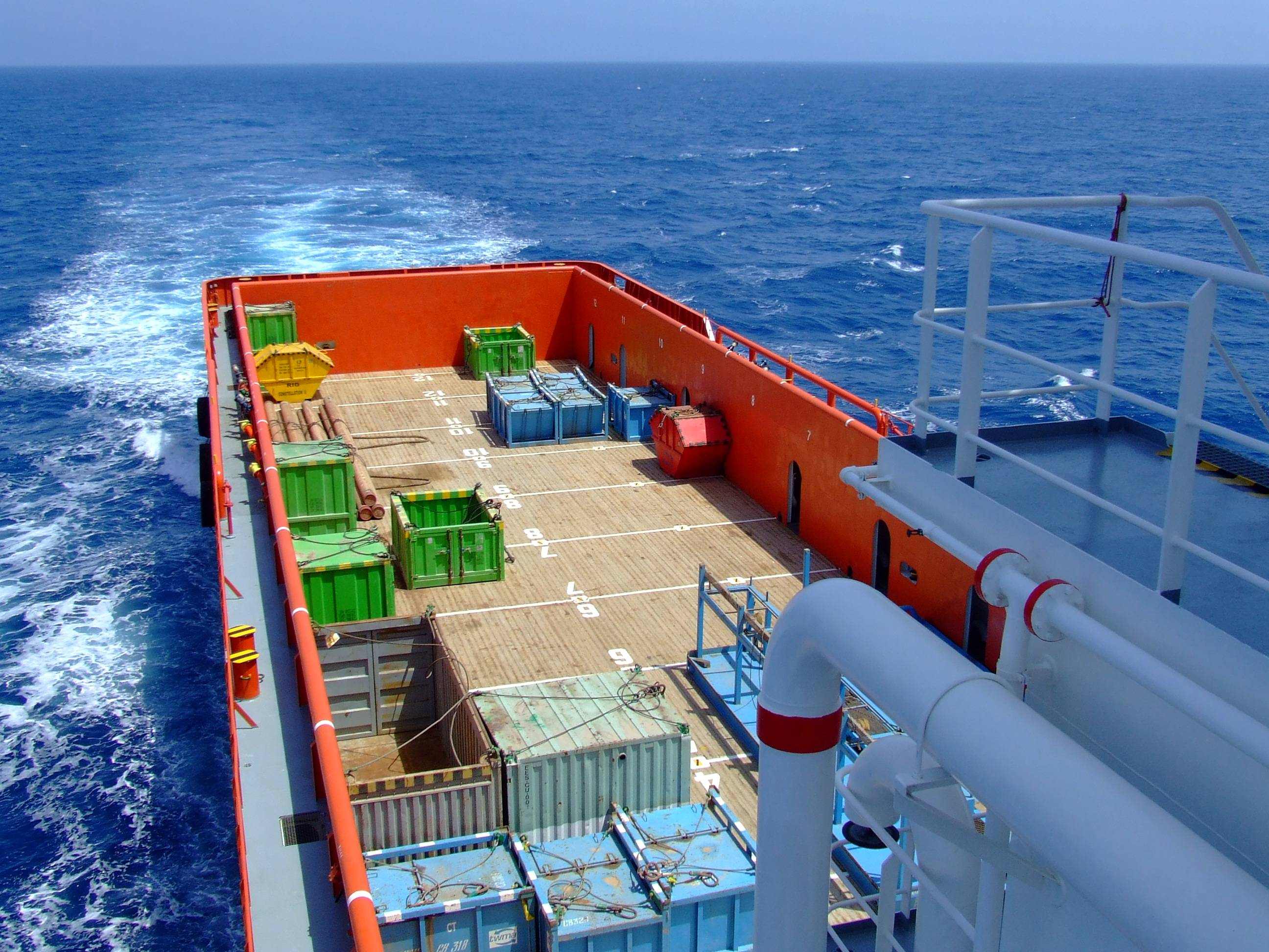 Various containers on deck of Platform Supply Vessel